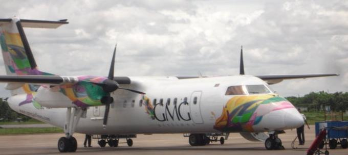 A GMG Airlines Dash-8 just before boarding, at Shah Amanat International Airport, Chittagong, Bangladesh.